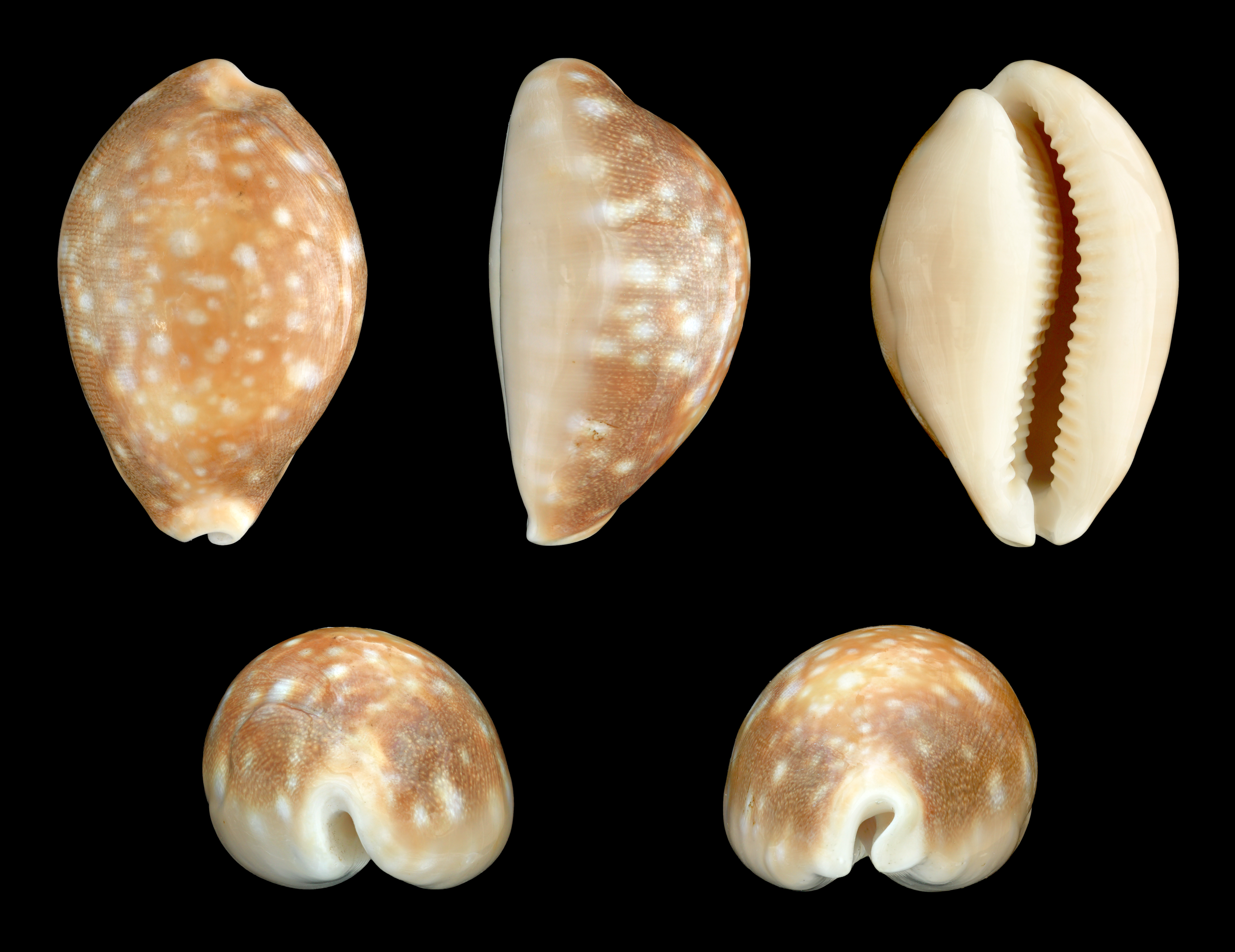 Little Calf Cowry; Length 4.8 cm; Originating from the Philippines; Shell of own collection, therefore not geocoded. Dorsal, lateral (right side), ventral, back, and front view.